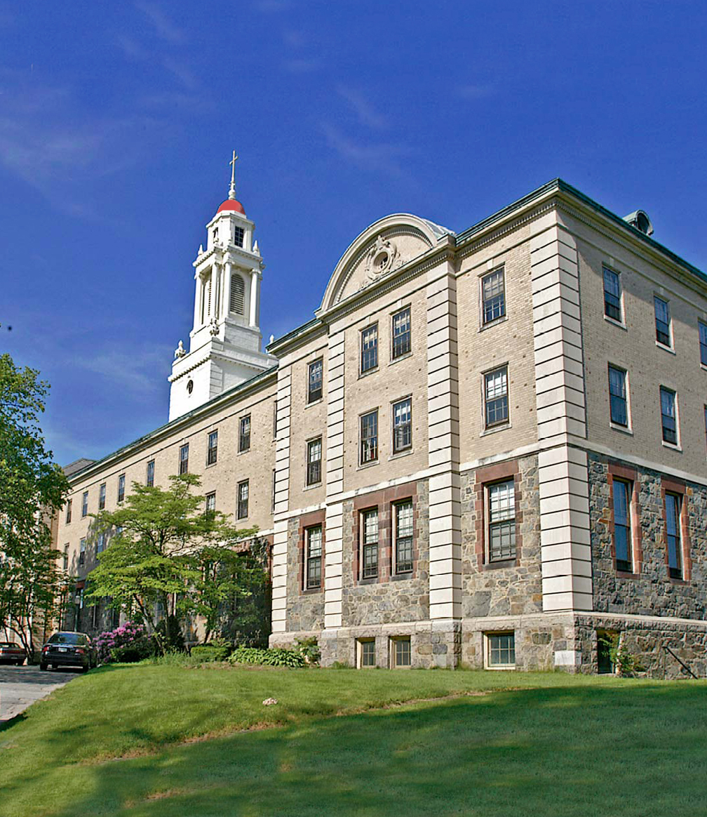 St William's Hall, Boston College Photo by author.